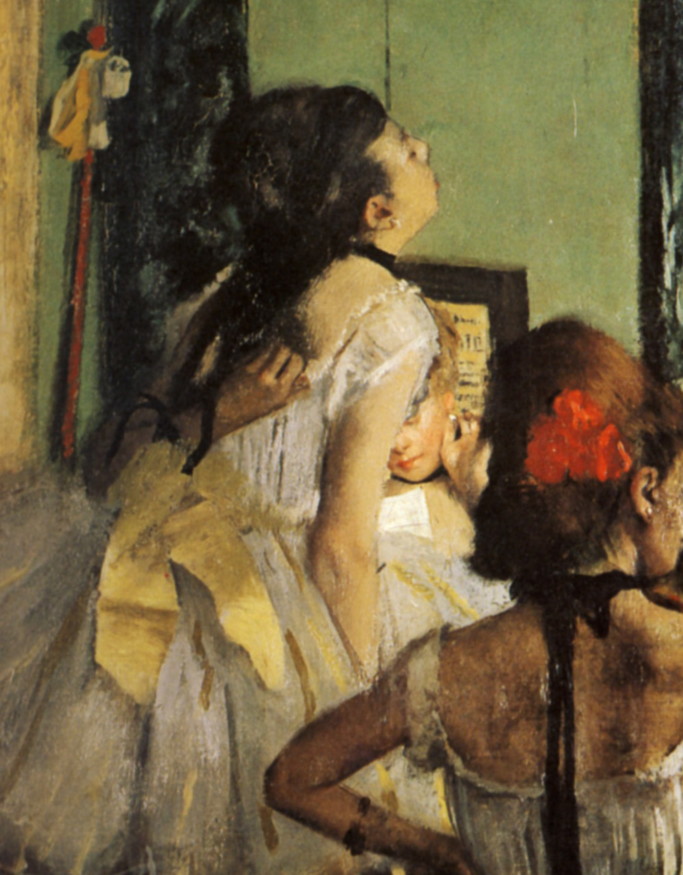 La Classe de danse, Degas, detail n. 1